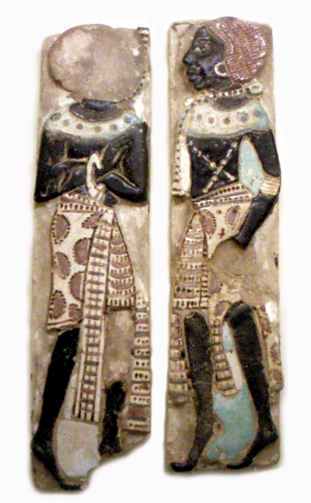 A pair of Nubians from the royal palace adjacent to the temple of Medinet Habu, from the reign of Ramesses III (1182-1151 BC)